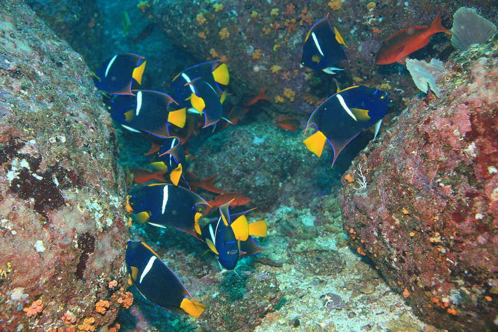 A large school of Passer Angelfish work the boulders at Viuda (Widow) dive site, in Coiba National Park, Panama.